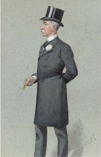 Caricature of Sir Lewis McIver MP. Caption read "the Member for Scotland". Accompanying biographical note in Vanity Fair read "His seventeen years in India have shown him how great England is, and he has been all over Scotland piping for his party and for his country; wherefore he is known as the 'Member for Scotland'".